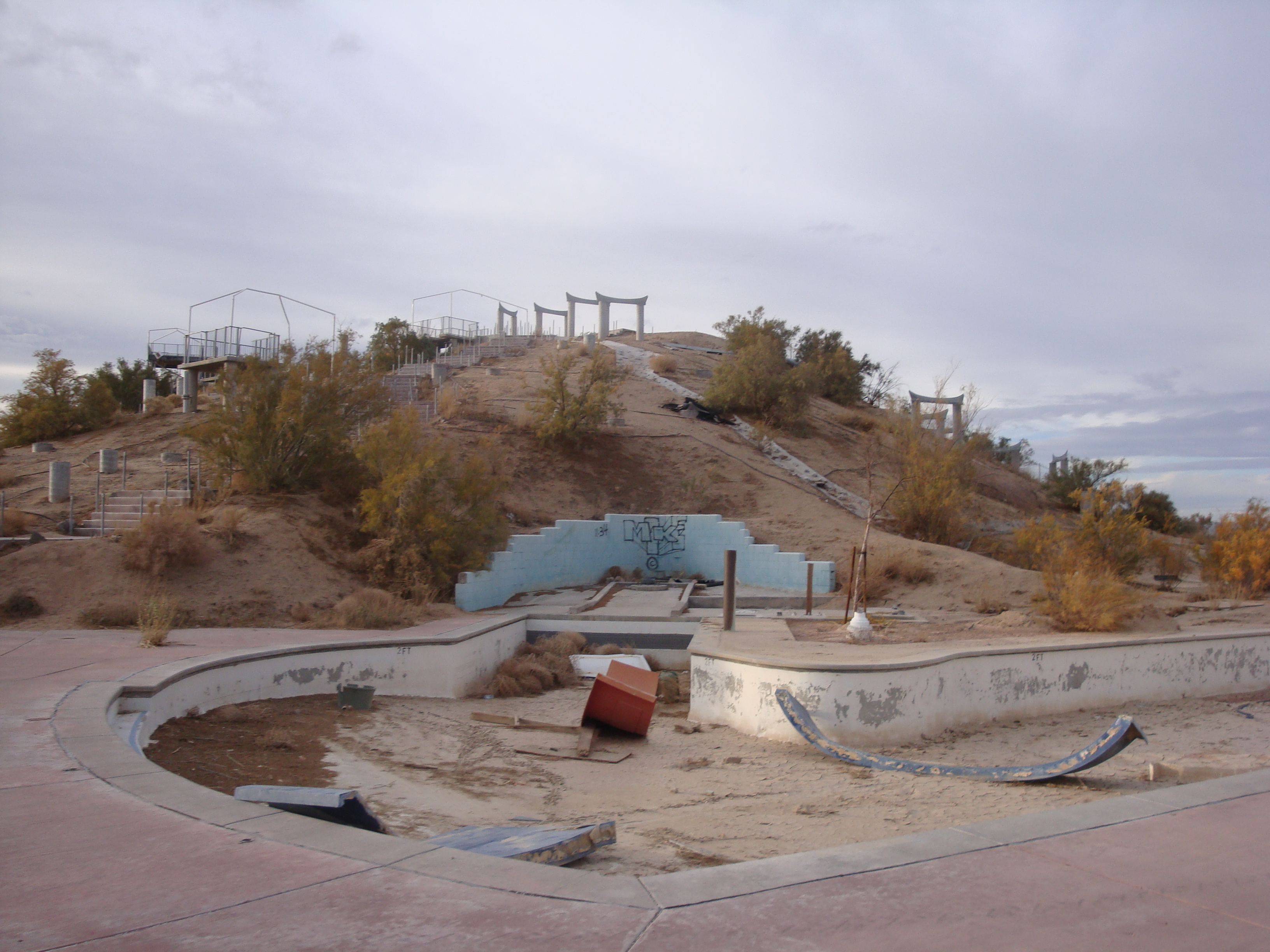 The ruined waterpark Lake Dolores in California